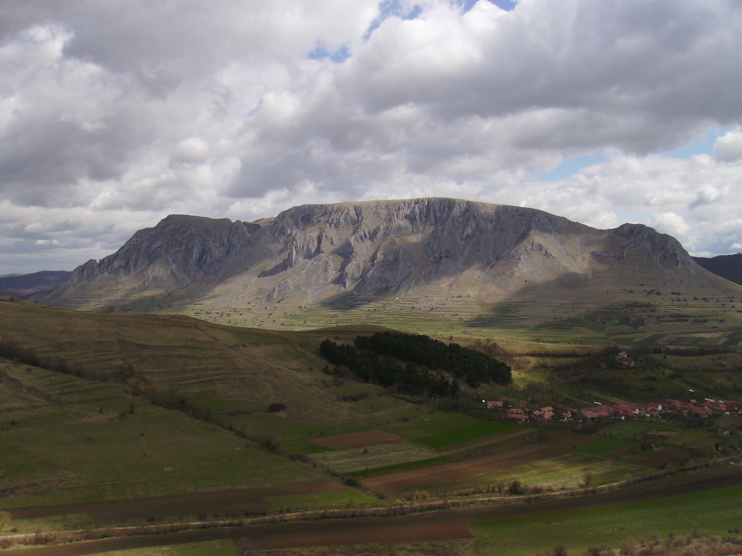 Piatra Secuiului or Szekelykő (Szekely's Rock) seen from Cetatea Trascăului in Transylvania, Romania.